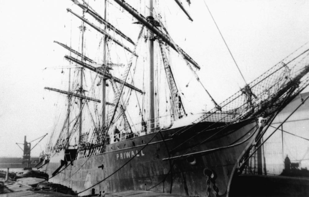 The Priwall was a german four-masted steel-hulled barque.